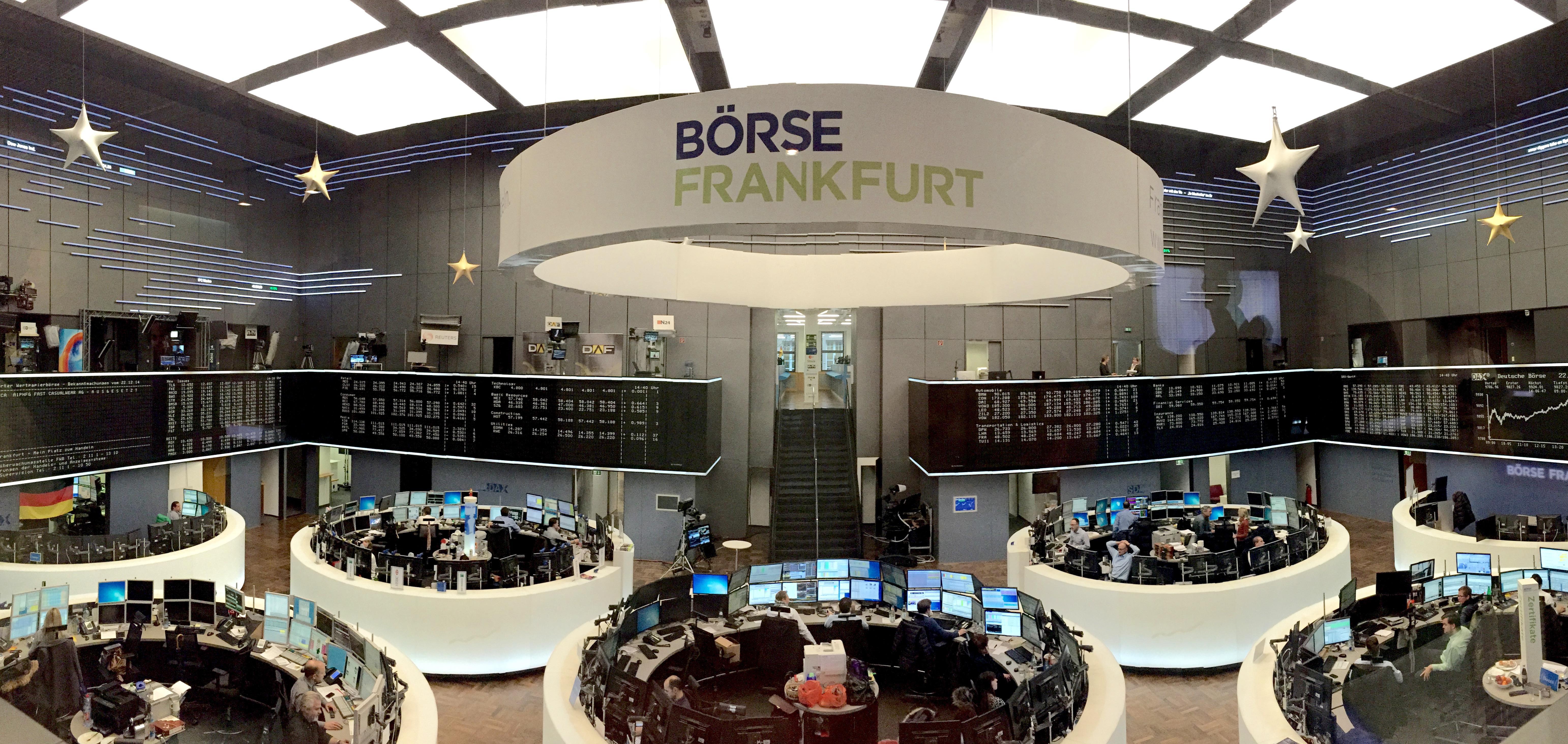 Frankfurt Stock Exchange